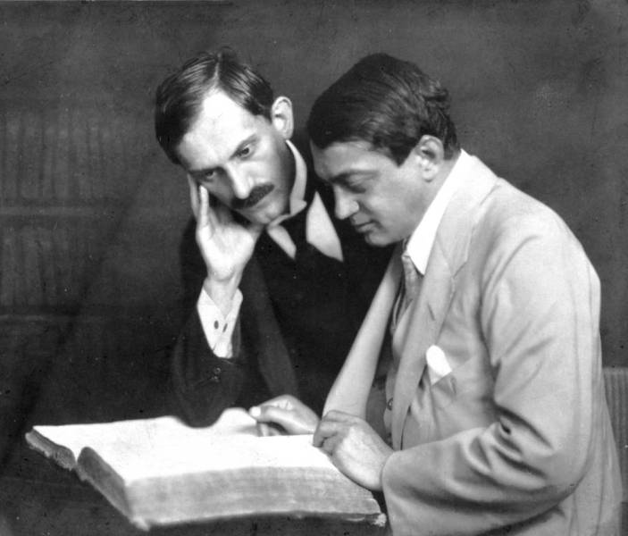 Endre Ady and Mihály Babits reading the Bible. Photograph by Aladár Székely Petőfi Literary Museum LocationBudapest V. District, HungaryCoordinates47° 29′ 29.73″ N, 19° 03′ 29.65″ E Established1954Web pagepim.huAuthority control : Q1234343 VIAF: 152132060 ISNI: 0000 0001 2186 691X GND: 13840-X SUDOC: 02903941X BNF: 12074898m institution QS:P195,Q1234343